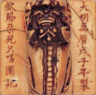 Seal of Dorjechang